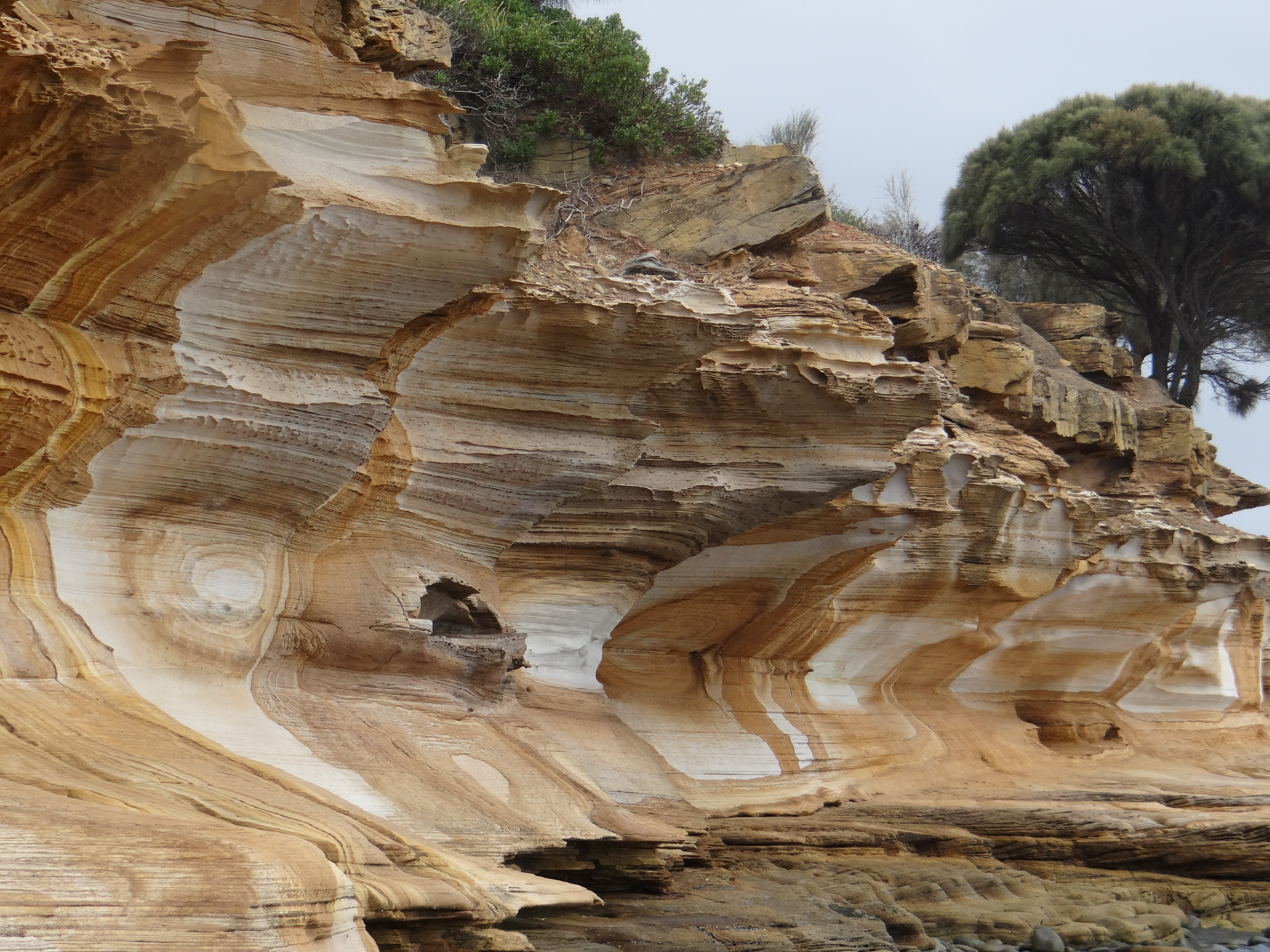 Triassic sandstone at Painted Cliffs on Maria Island in Tasmania in Australia.